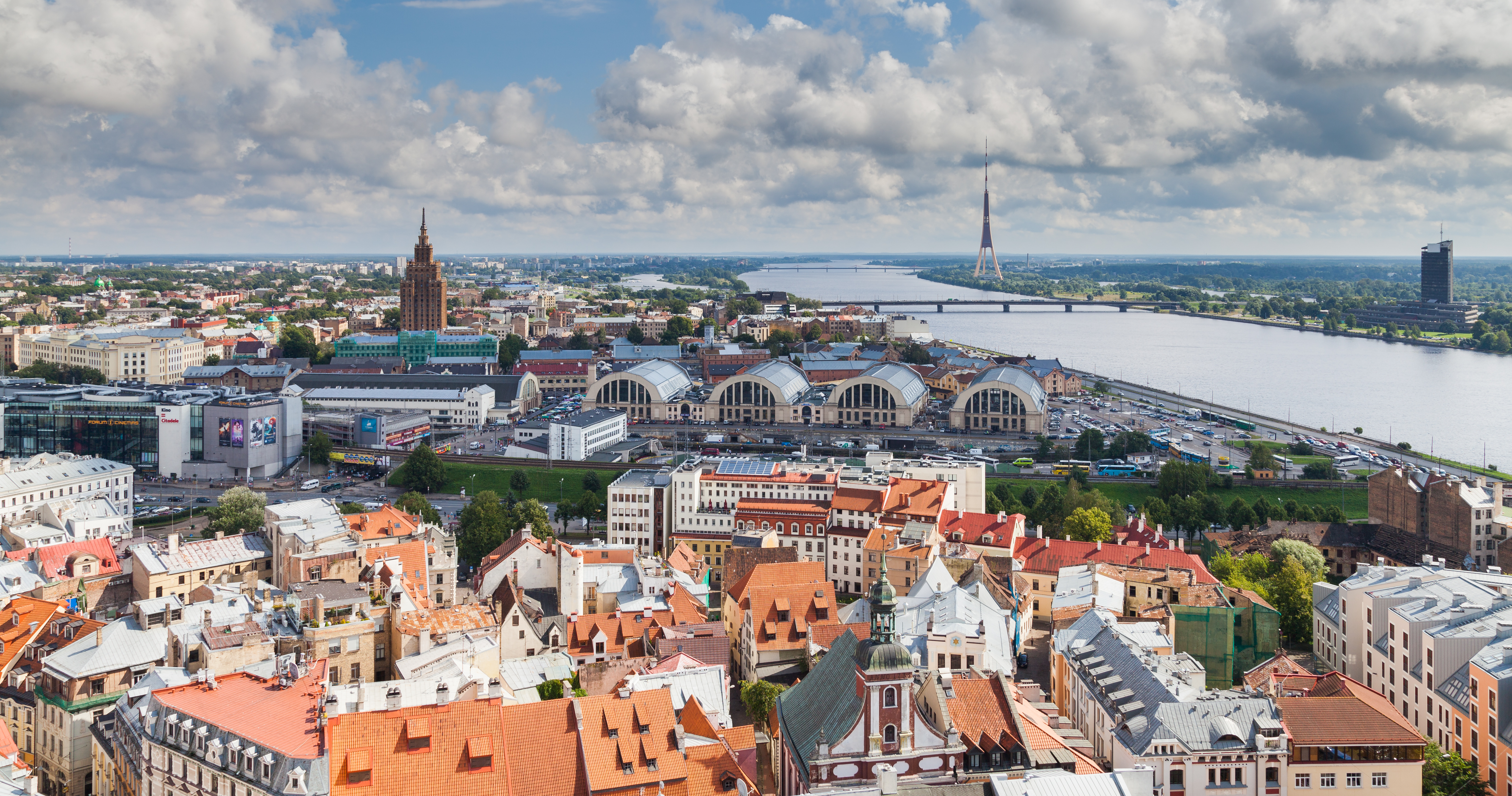 View of Riga from St. Peter's church, Latvia